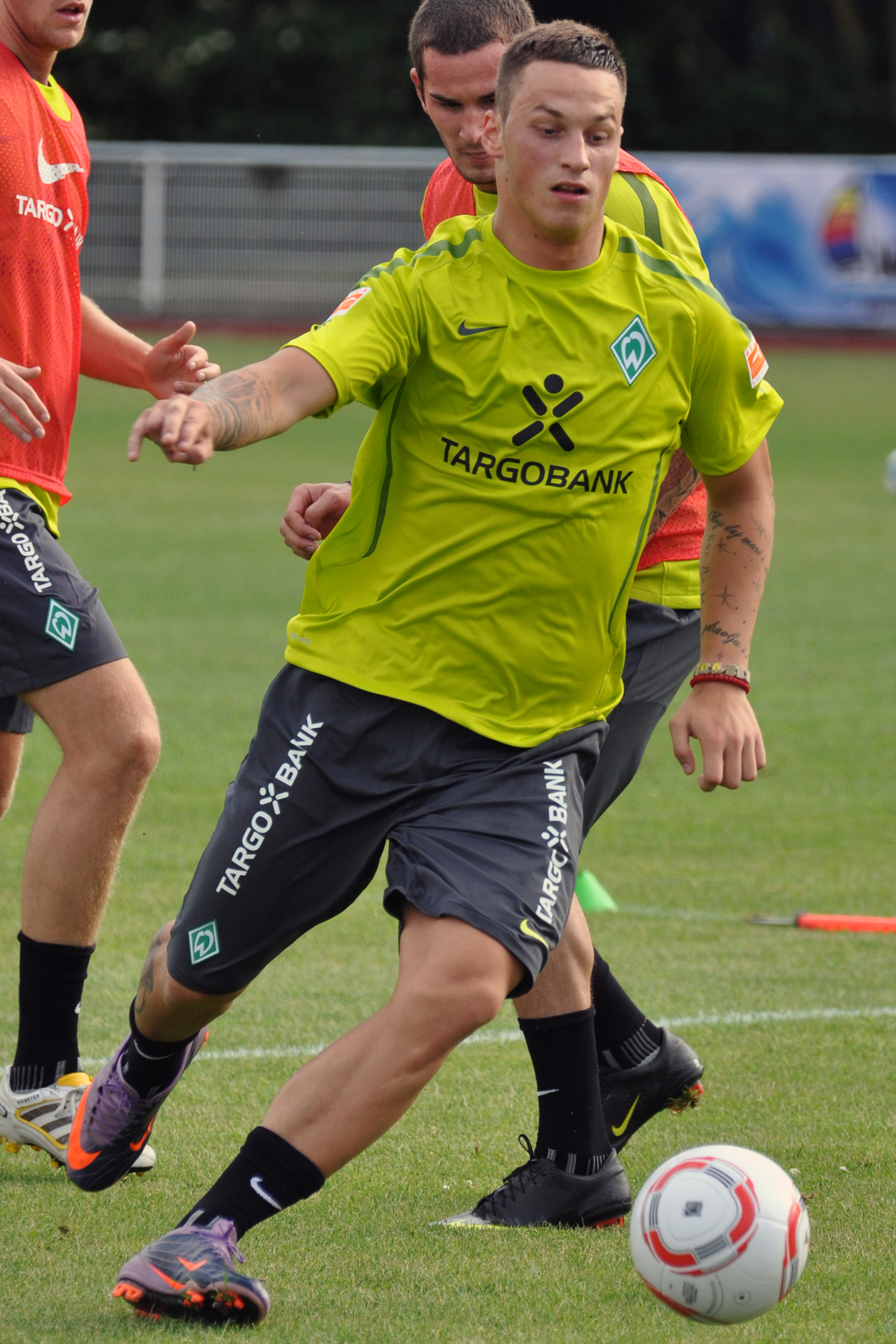 Austrian football player Marko Arnautović during training of Werder Bremen.